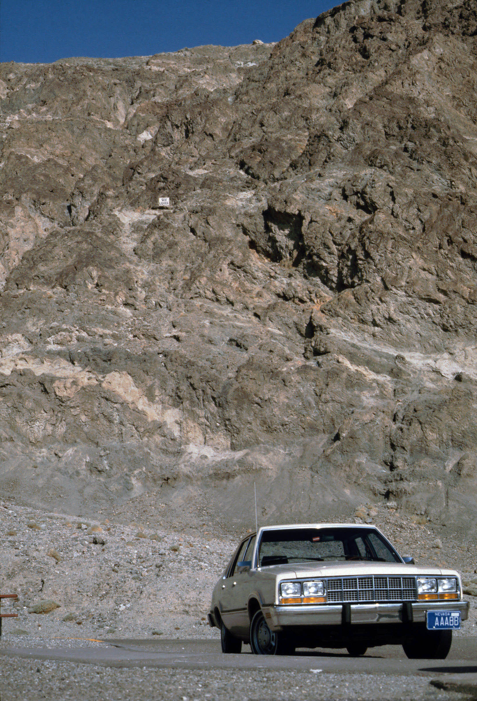 Death Valley,Badwater,Sea Level